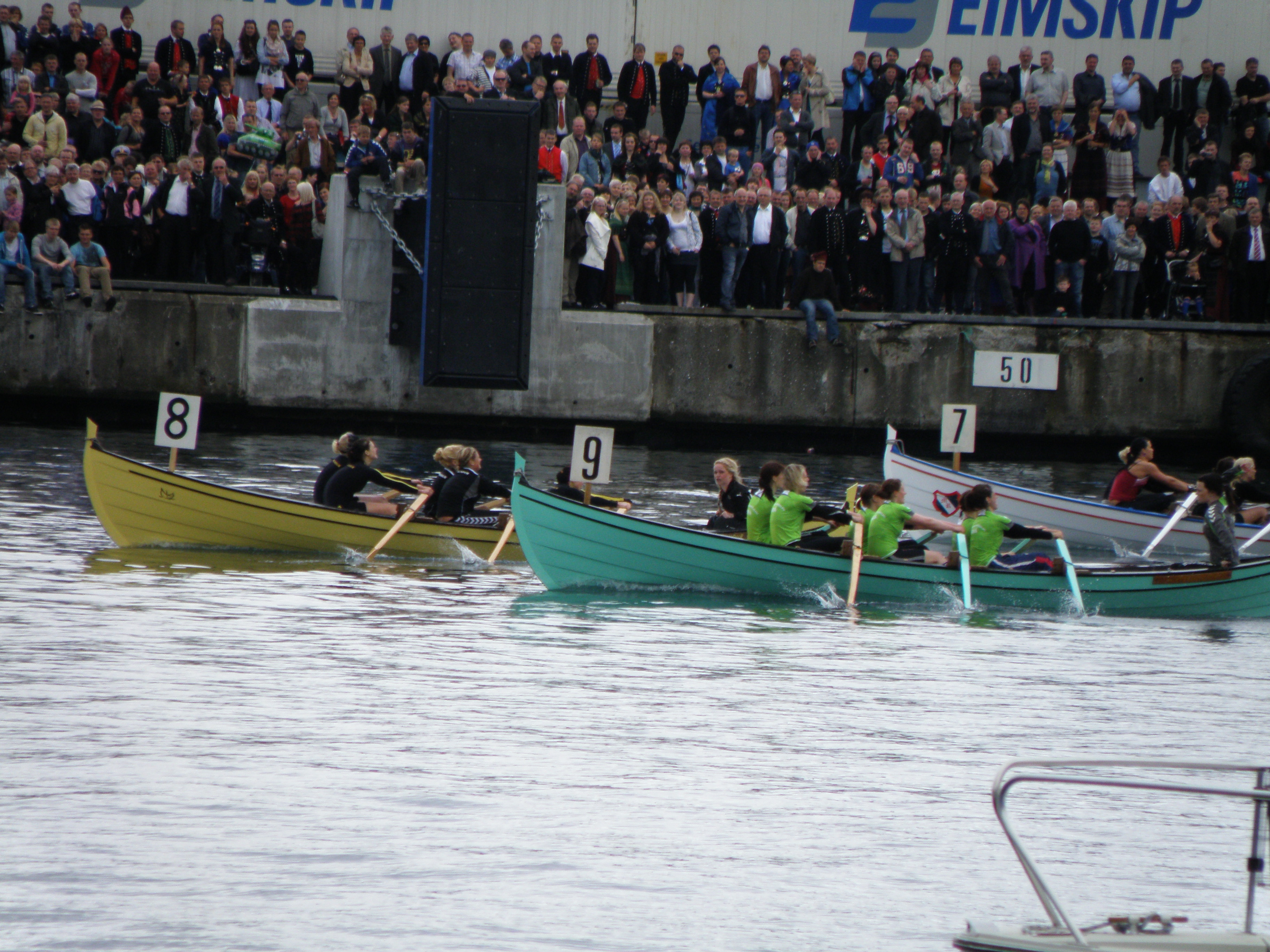 Ólavsøka means Sct. Olav's Wake, it is the national holiday of the Faroe Islands. It is held on 28 and 29 July. One of the main events are the boat races down in the harbour of Tórshavn, the eastern harbour. Men and women and children too are rowing in different categories. The children are rowing 500 meters, the adults are rowing 1000, 1500 or 2000 meters. However the fjord of Tórshavn is so short, that it is not possible to row any further distances than 1000 meters (or actually only 900 meters). But the Olavsøka boat race (Kappróður) is the most important of all the races and the final one. There are 7 festivals around the islands with boat races which compete about the Faroese Championship. The winner gets 7 points, number two gets 6 points and so on. These boats are from the category Women 6-oar boats, in Faroese it is called "6-mannafør kvinnur". The winner of this boat race was the yellow boat from Runavík, Sølmundur, number two was the green boat Hvessingur and number three was the white boat Gongurólvur from Tórshavn. Riddarin, Lómur and Jarnbardur were number 4, 5 and 6. The winning boats get a trophy (sometimes more than one) and gold medals, number two gets silver medals and number three gets bronze medals. Føroyskt: Kappróður á Ólavøku 2010. Seksmannafør kvinnur. Vinnarin av hesum róðrinum gjørdist Sølmundur úr Runavík, Hvessingur gjørdist nummar tvey, Gongurólvur nummer trý, Riddarin nummar 4, Lómur nummar 5 og Jarnbardur nummar 6.